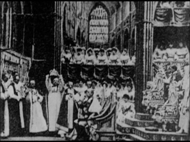 A frame from the 1902 film The Coronation of Edward VII, directed by Georges Méliès and produced by Charles Urban.